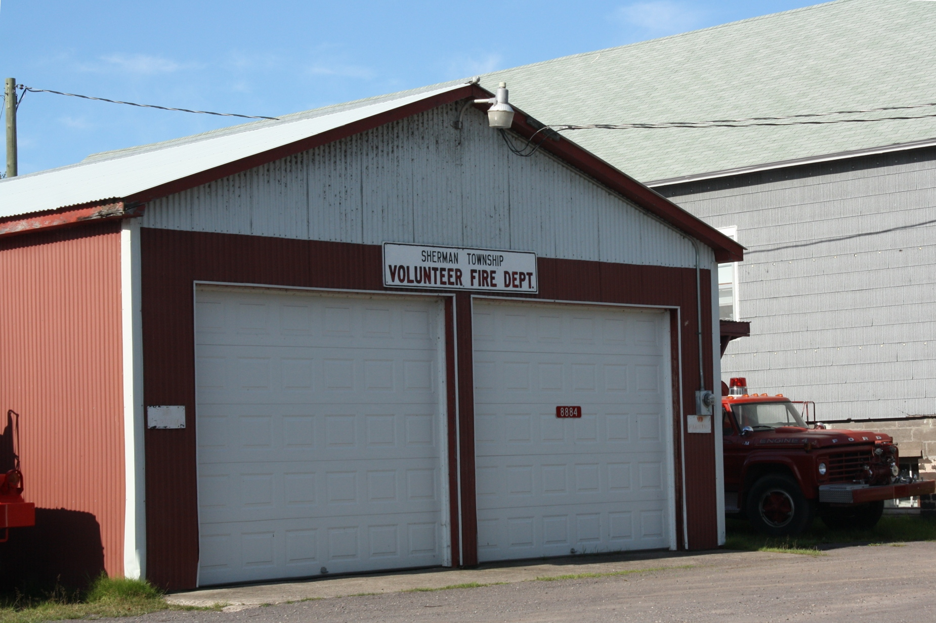 Looking at the fire department for Sherman Township, Keweenaw County, Michigan.